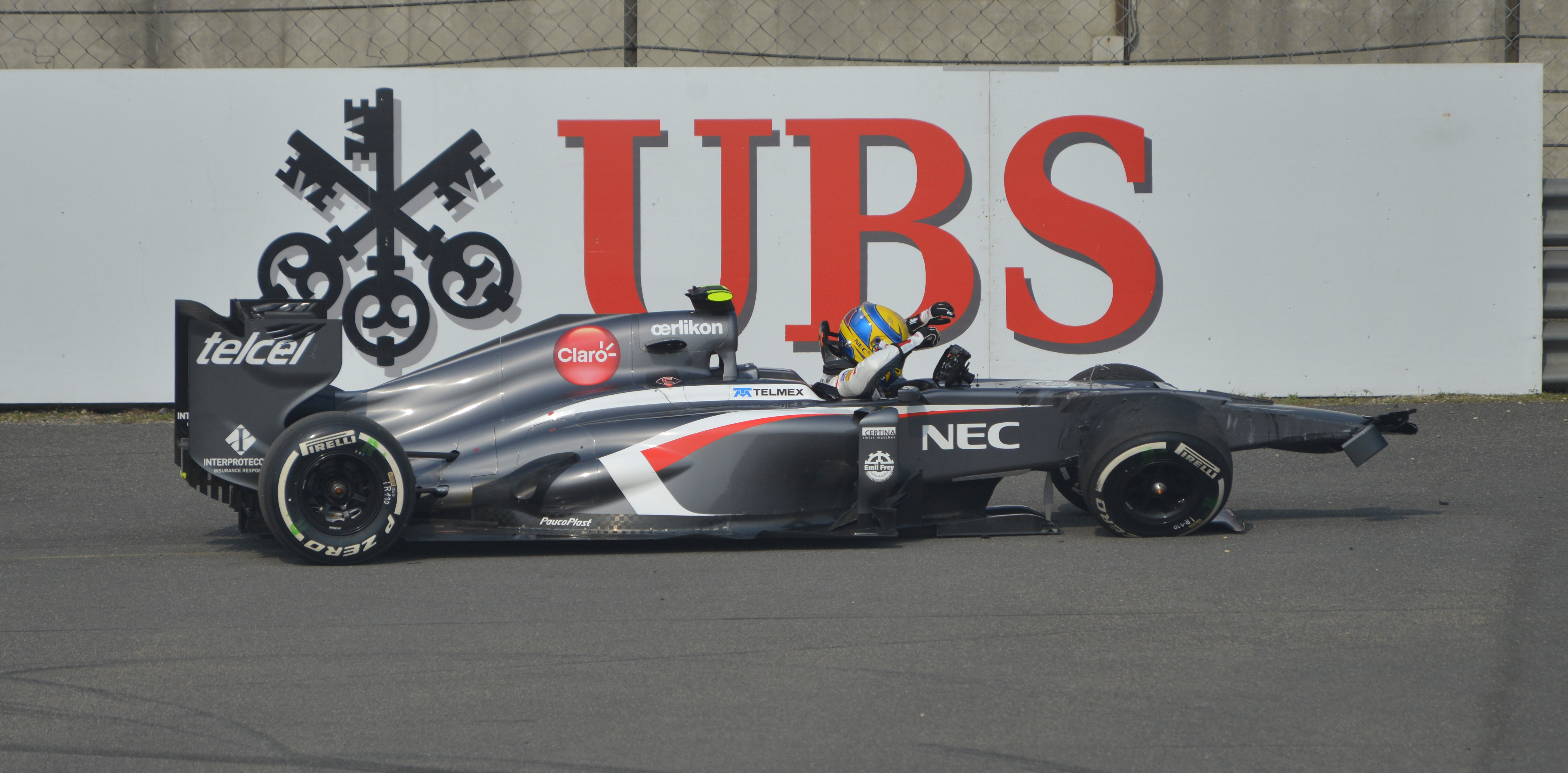 Esteban Gutierrez exiting his stranded Sauber at the 2013 Chinese Grand Prix